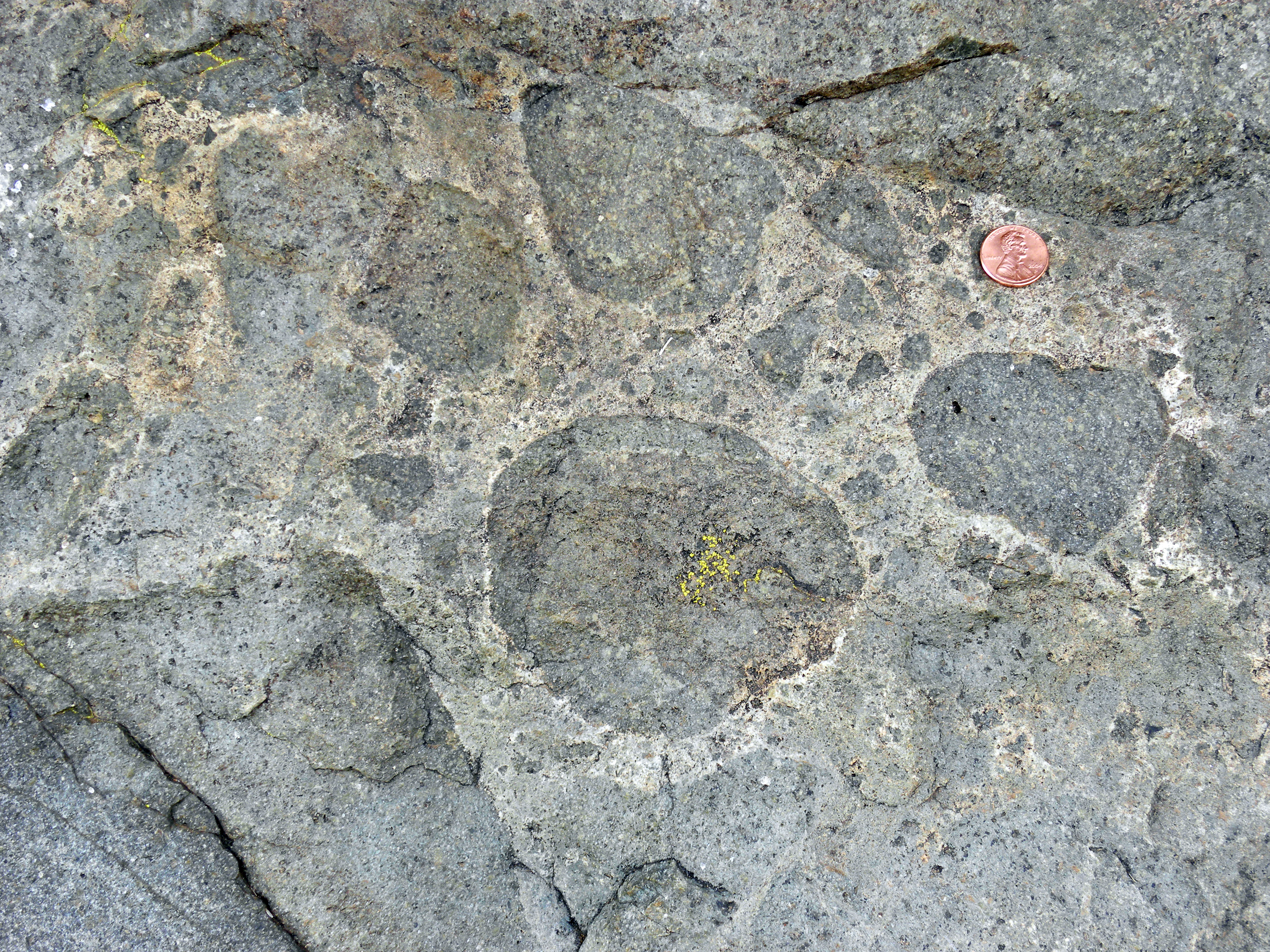 Metaconglomerate rock at Los Peñasquitos Canyon Preserve, northern San Diego, Southern California.